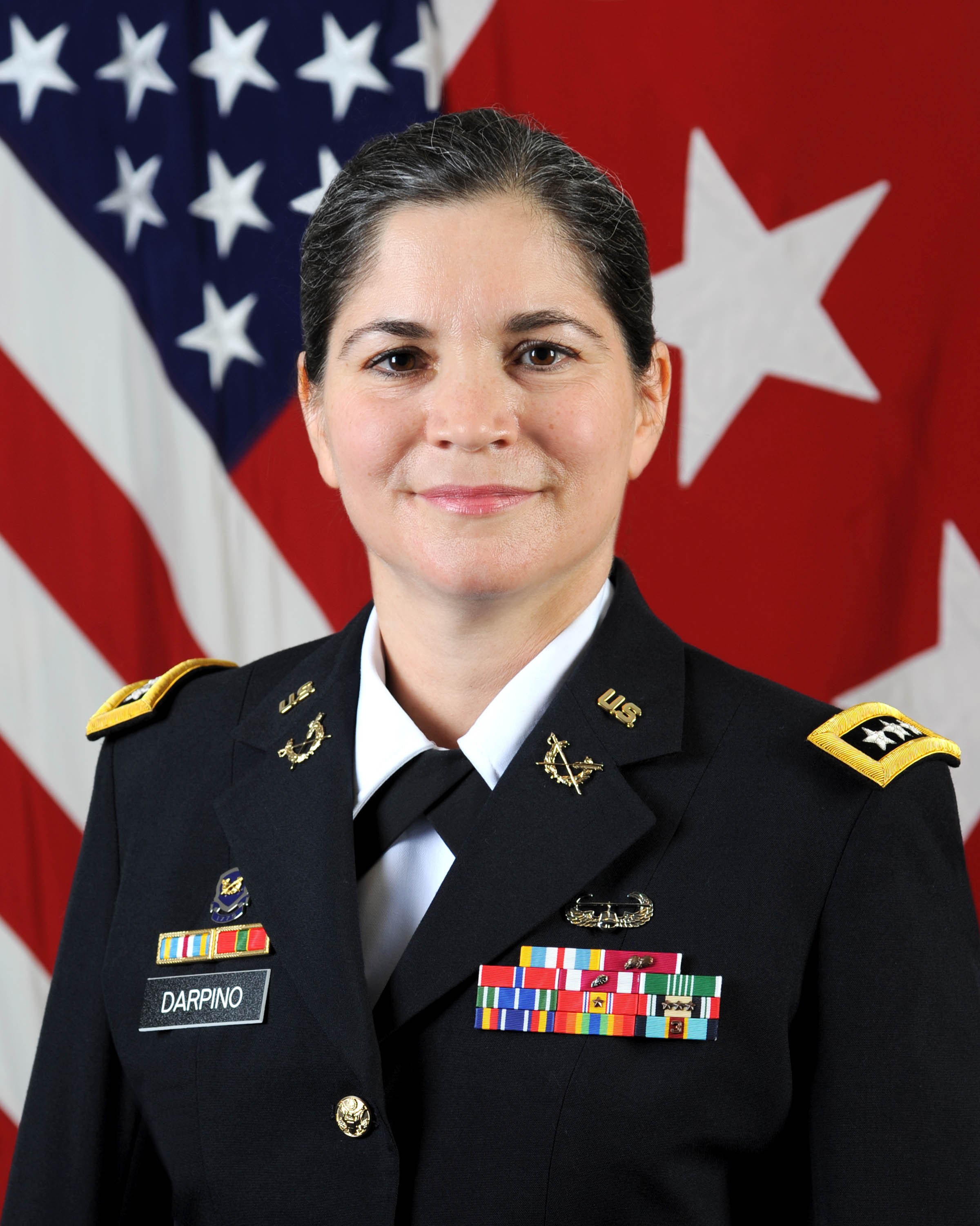 For the first time in the 236-year-old history of the Army Judge Advocate General's Corps, or JAG, a woman has been selected as the service's top lawyer. She will lead the nearly 2,000 full-time judge advocates and civilian attorneys who provide legal services to the Army.